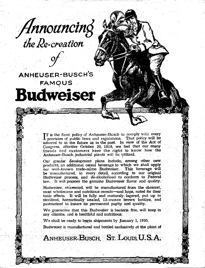 Budweiser ad from Anheiser Busch, showing their preparation to reintroduce an alcohol-free beer, as required under the Volstead Act in 1919.